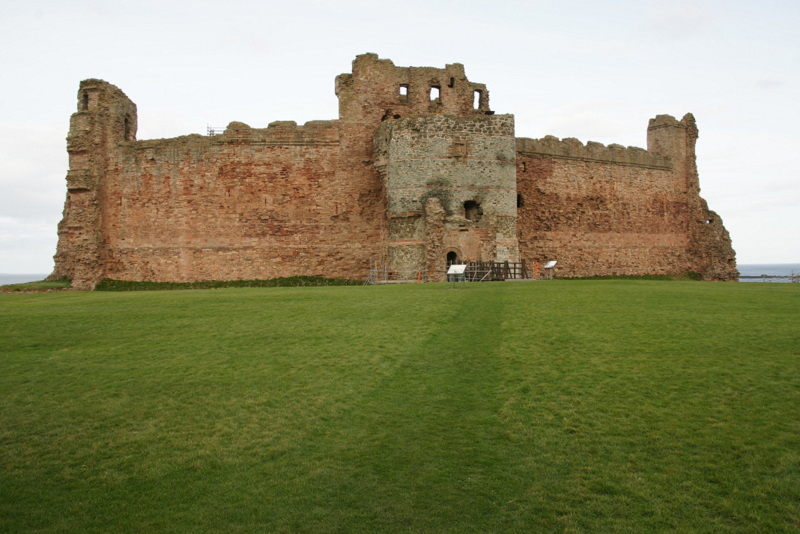 Tantallon Castle Tantallon Castle was built in the 1350s and was the seat of the Earls of Douglas, who were a prominent family in Scottish history due to an association with Robert the Bruce. The castle itself was only known to have seen action on three occasions, in all cases rebelling against the ruling authority. In 1491, James IV besieged the castle after the Earl of Douglas entered into a pact with Henry VII of England. In 1528, James V besieged the castle after escaping following being held prisoner as a youth by the Earl of Douglas in Edinburgh, although this siege was known to be unsuccessful. Finally, in 1651 a small garrison of Scottish troops attempted to hold out against Cromwell's forces, but with improved artillery the castle was vulnerable to attacks from the flanks, and most of the damage seen today was inflicted and the castle was abandoned.